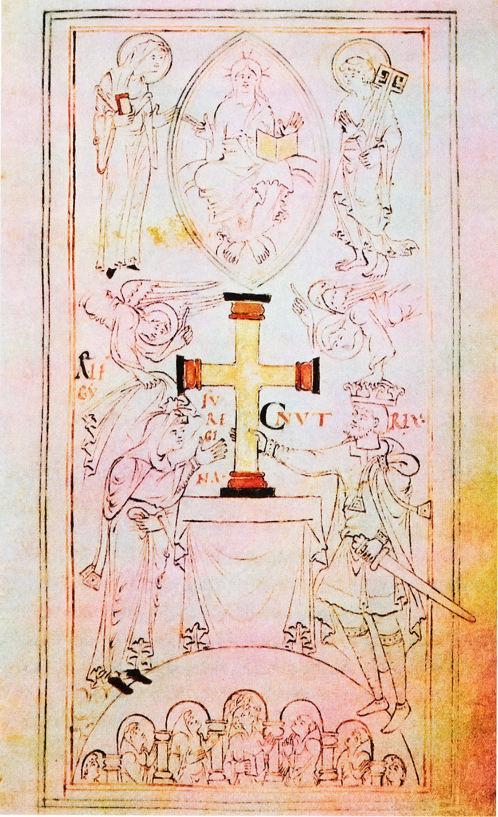 for more details. This leaf illustrates King Cnut and Queen Emma donating a golden altar cross to the New Minster at Winchester. British Library MS Stowe 944 (The New Minster Liber Vitae) folio 6 reverse.